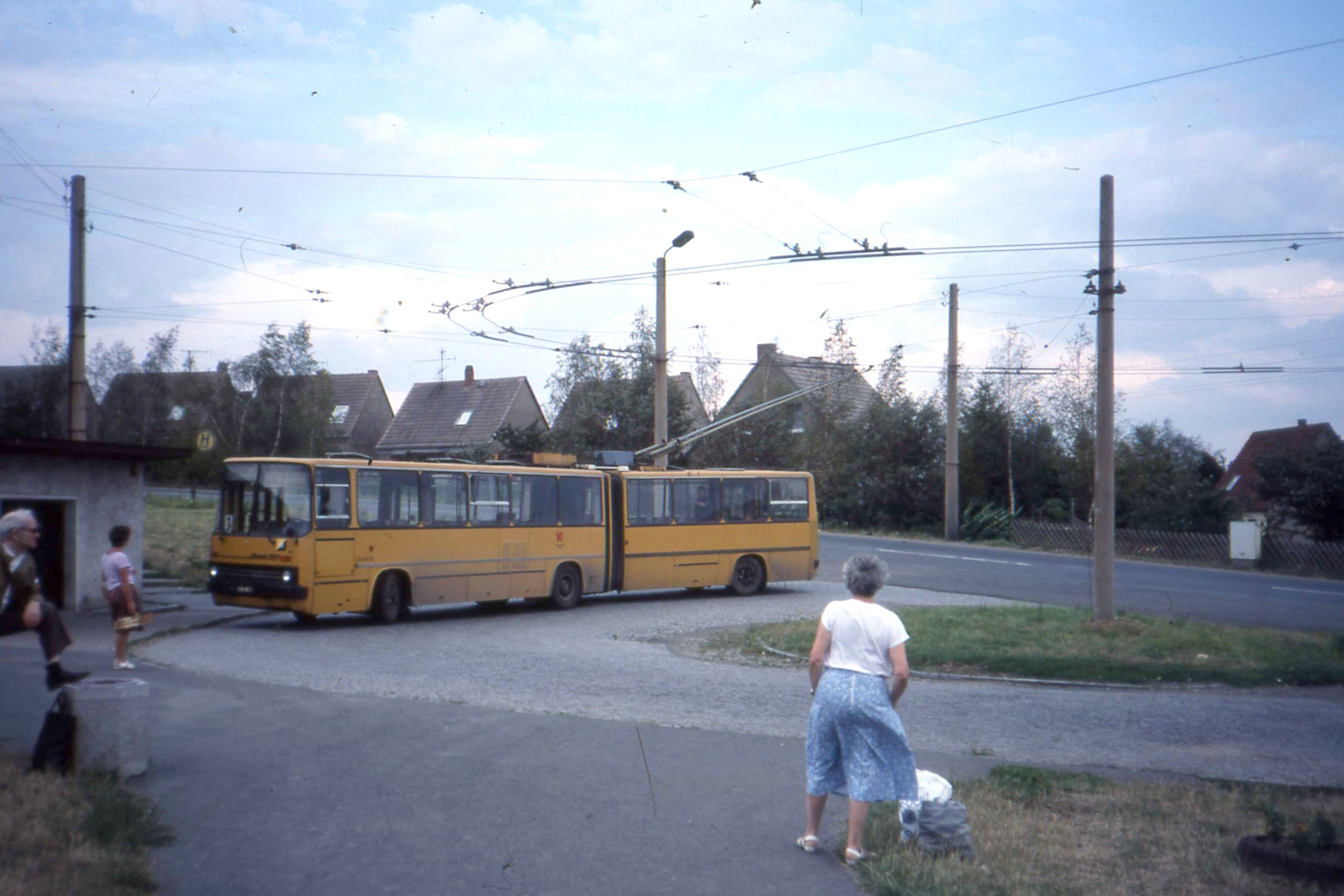 Ikarus 280T trolleybus in Weimar, former East Germany